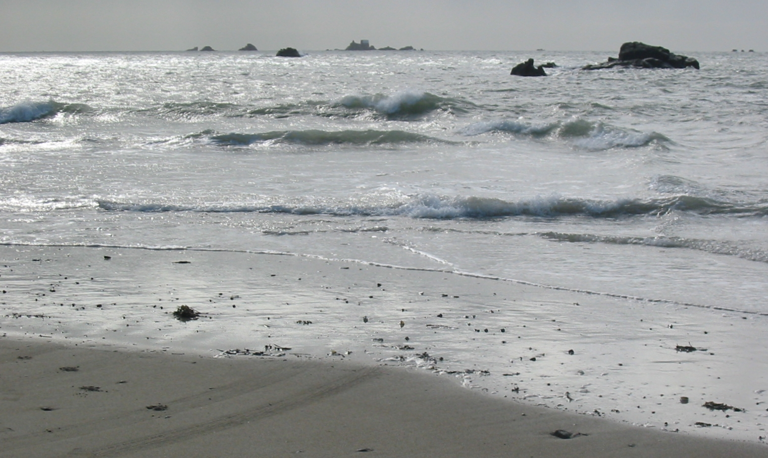 Jersey Nrf: Jèrri